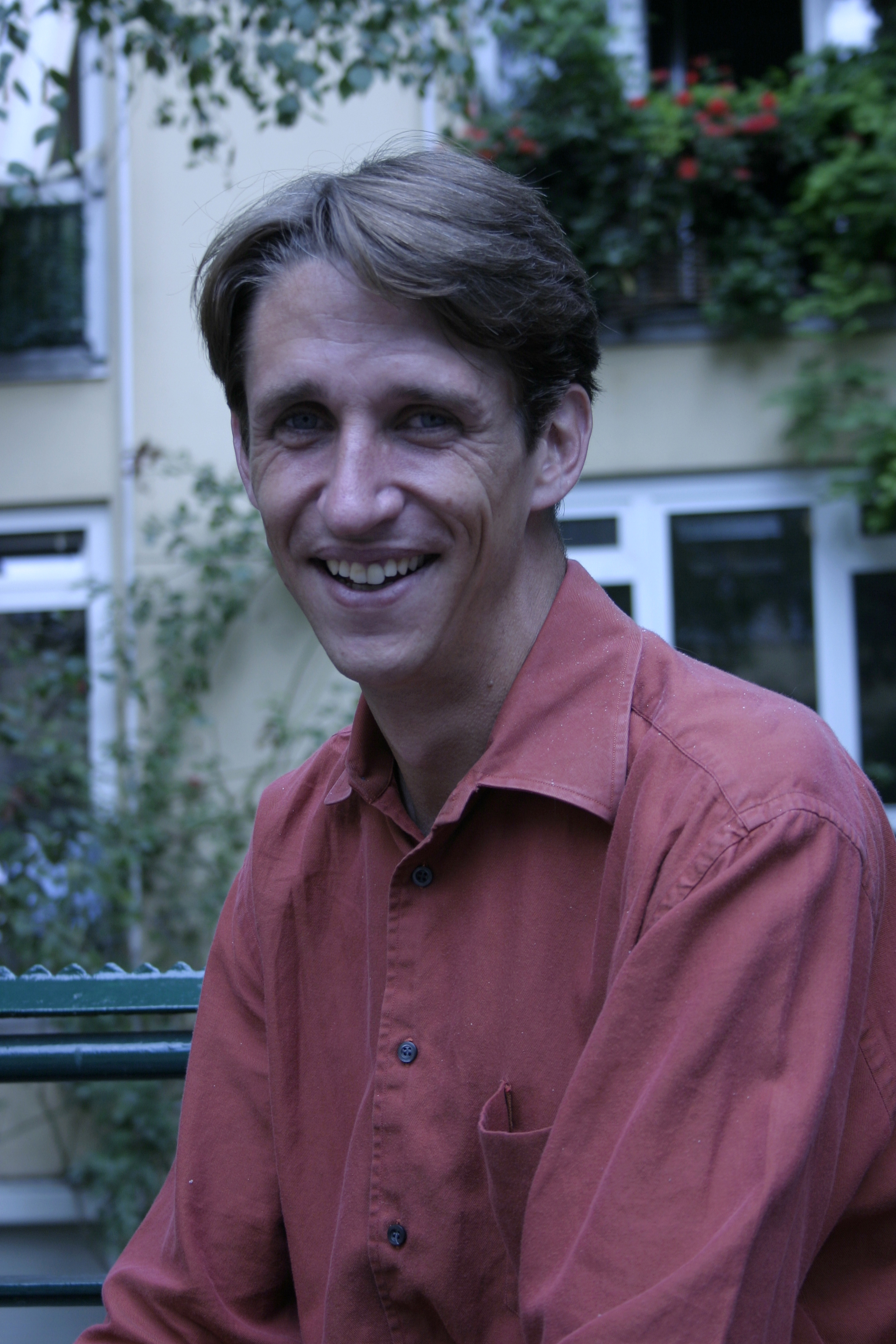 Ross Mayfield of Socialtext at Wikimania in Frankfurt, Germany.